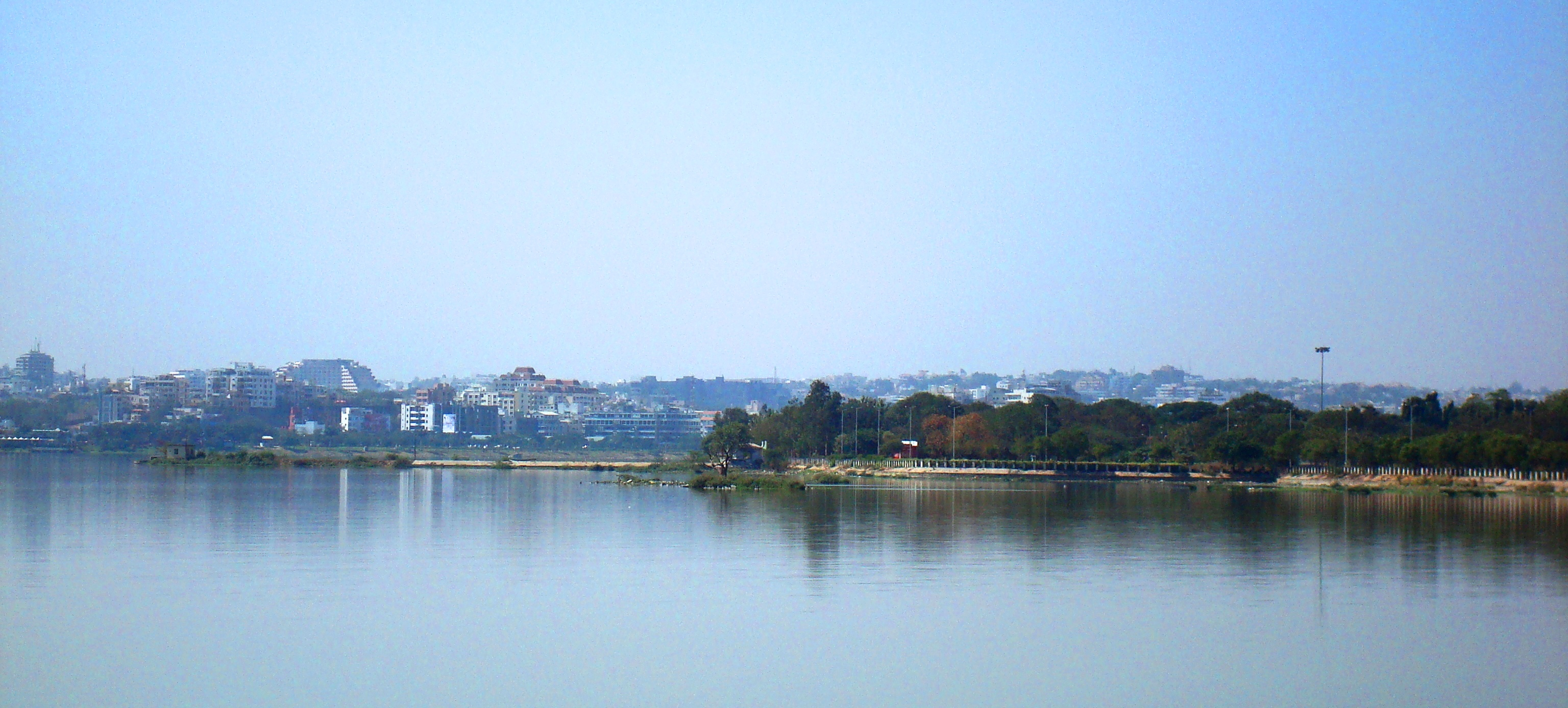 I have taken this picture which shows the lake Hussain sagar.